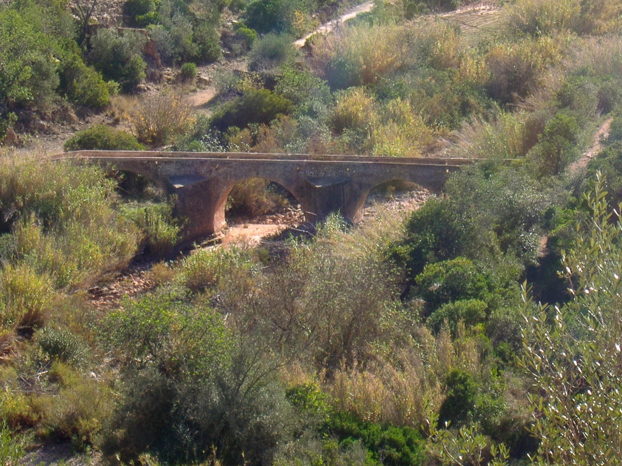 A Digital photograph of the Bridge at Paderne in the Algarve, Portugal taken on the 26th November 2007 by Beechgrove